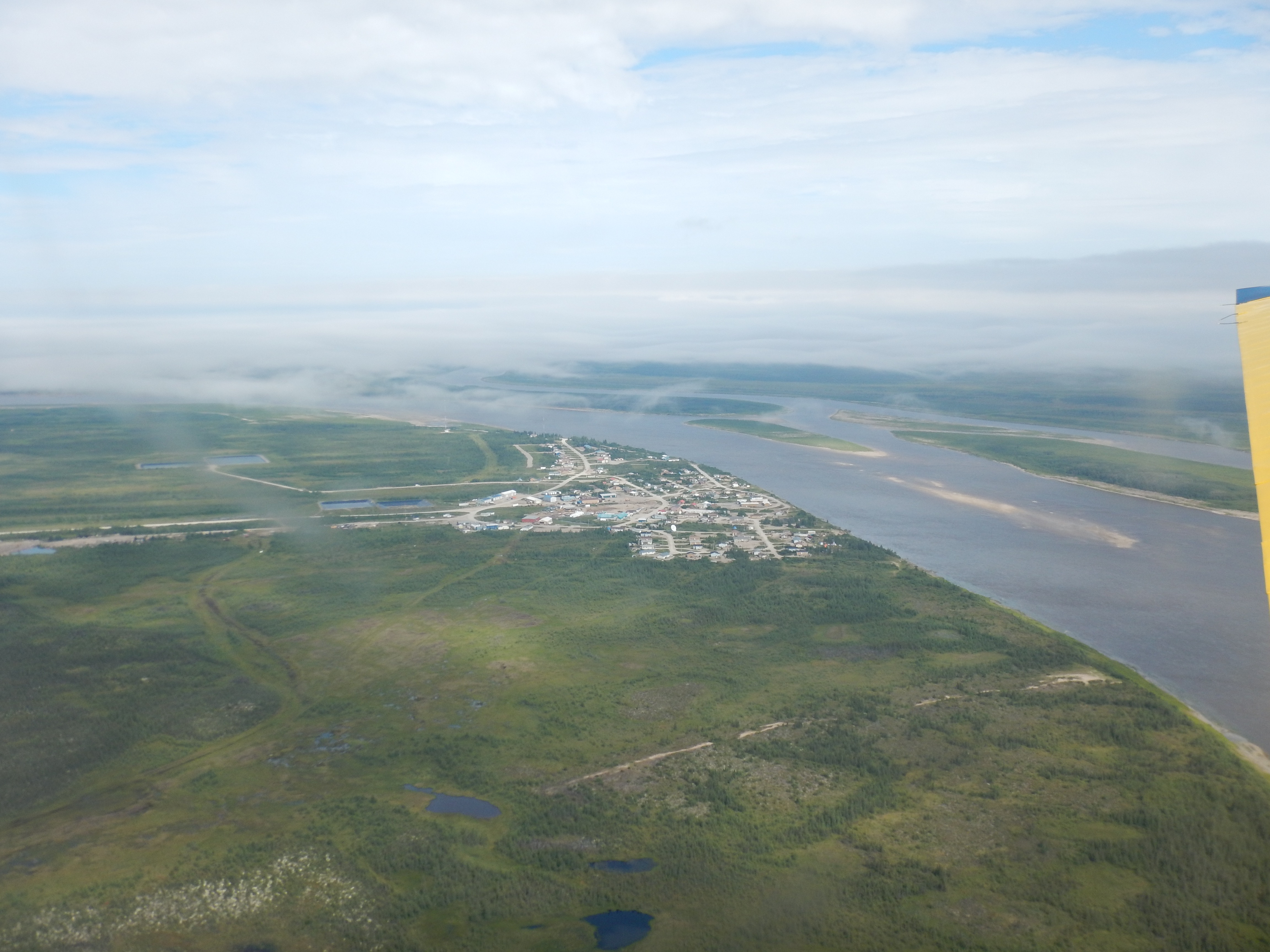 Aerial photo of Fort Severn taken on August 9 2015